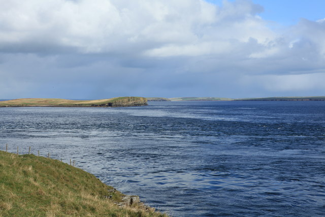 'Hells Gate' and Switha Calm today but when the tide is ebbing and a strong wind blowing the sea here is extremely treacherous. The sea-bed here changes in depth from 28 metres to 60 metres causing a big surge in water.